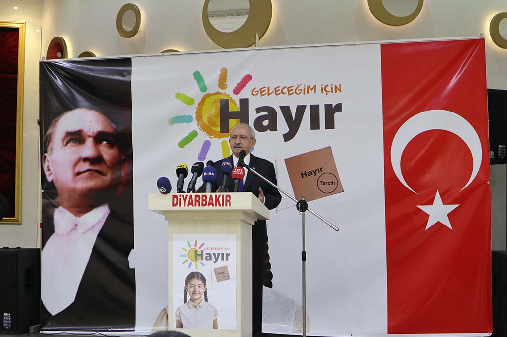 Republican People's Party leader Kemal Kılıçdaroğlu addressing a rally at Diyarbakır during the 2017 Turkish constitutional referendum 'No' campaign